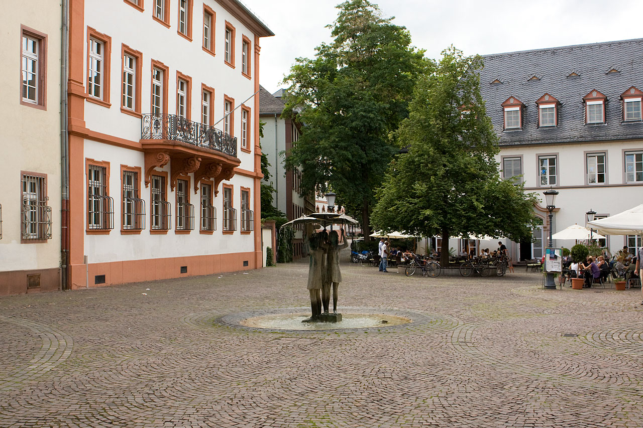 Public place: Ballplatz, Mainz